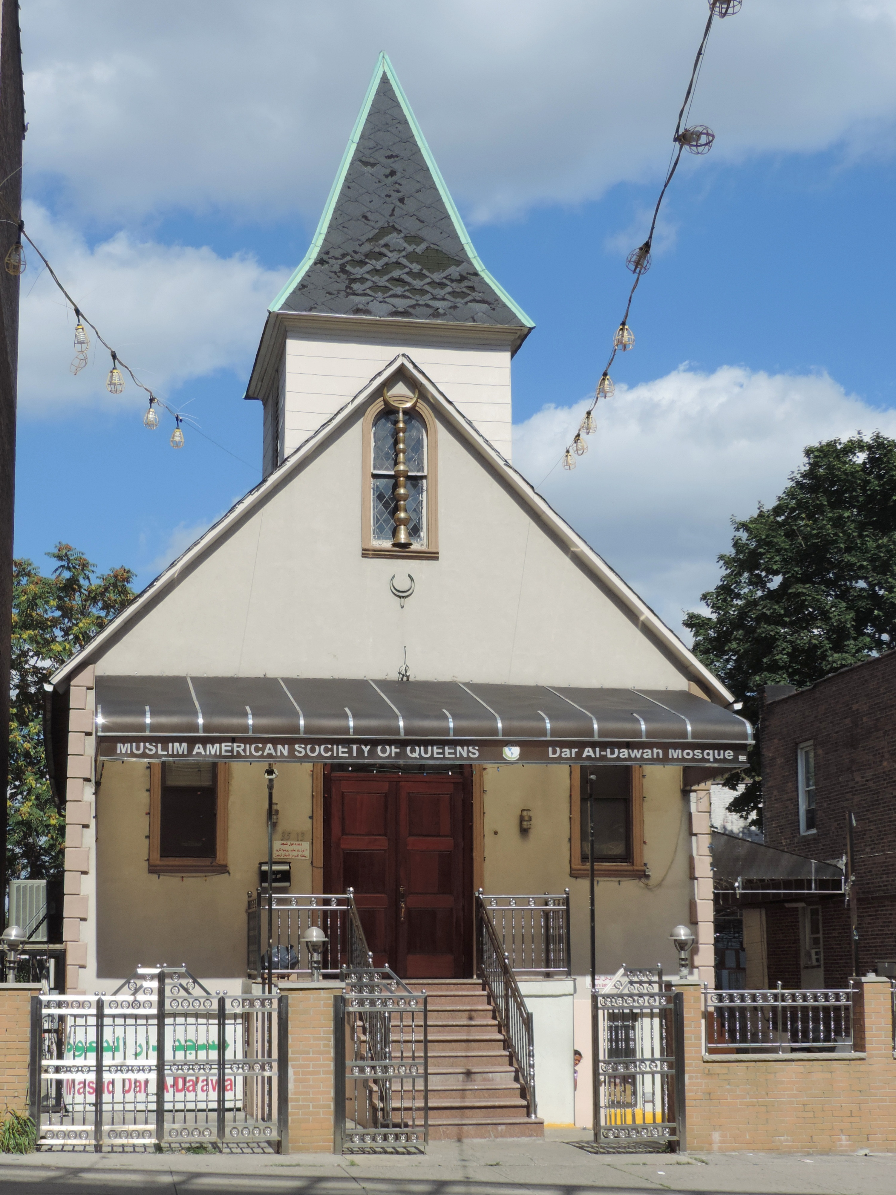 Looking north across 23rd Avenue at former Dutch Reformed Church on a partly cloudy midday.